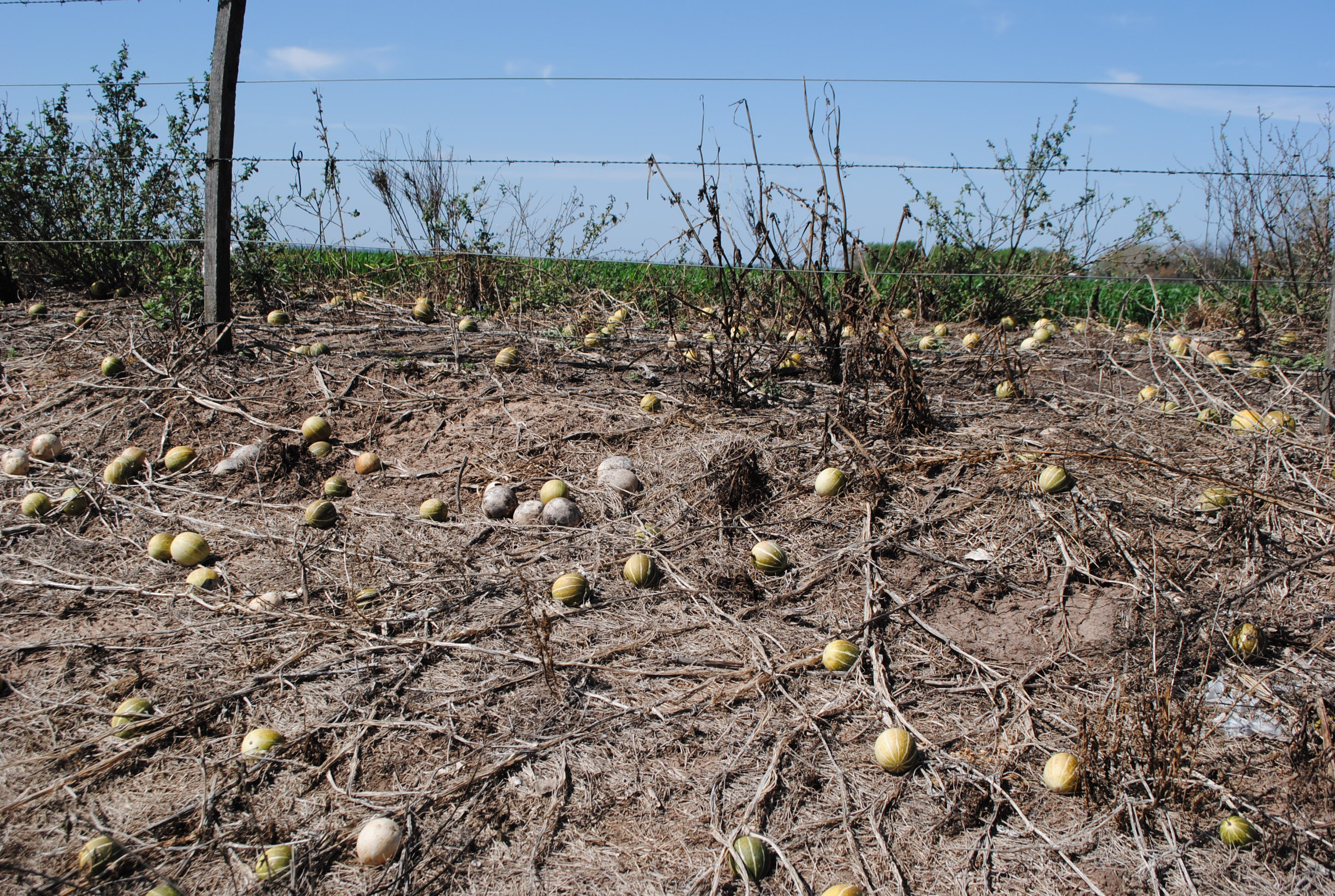 Fruits of Cucurbita maxima ssp andreana in a field fence, Zavalla, Argentina. No seed dispersal is evident since last season fruits (brown ones) are still in the place with current season fruits (green ones).